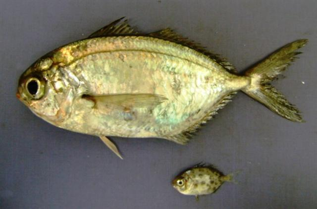 Ariomma indicum adult and juvenile from Pakistan